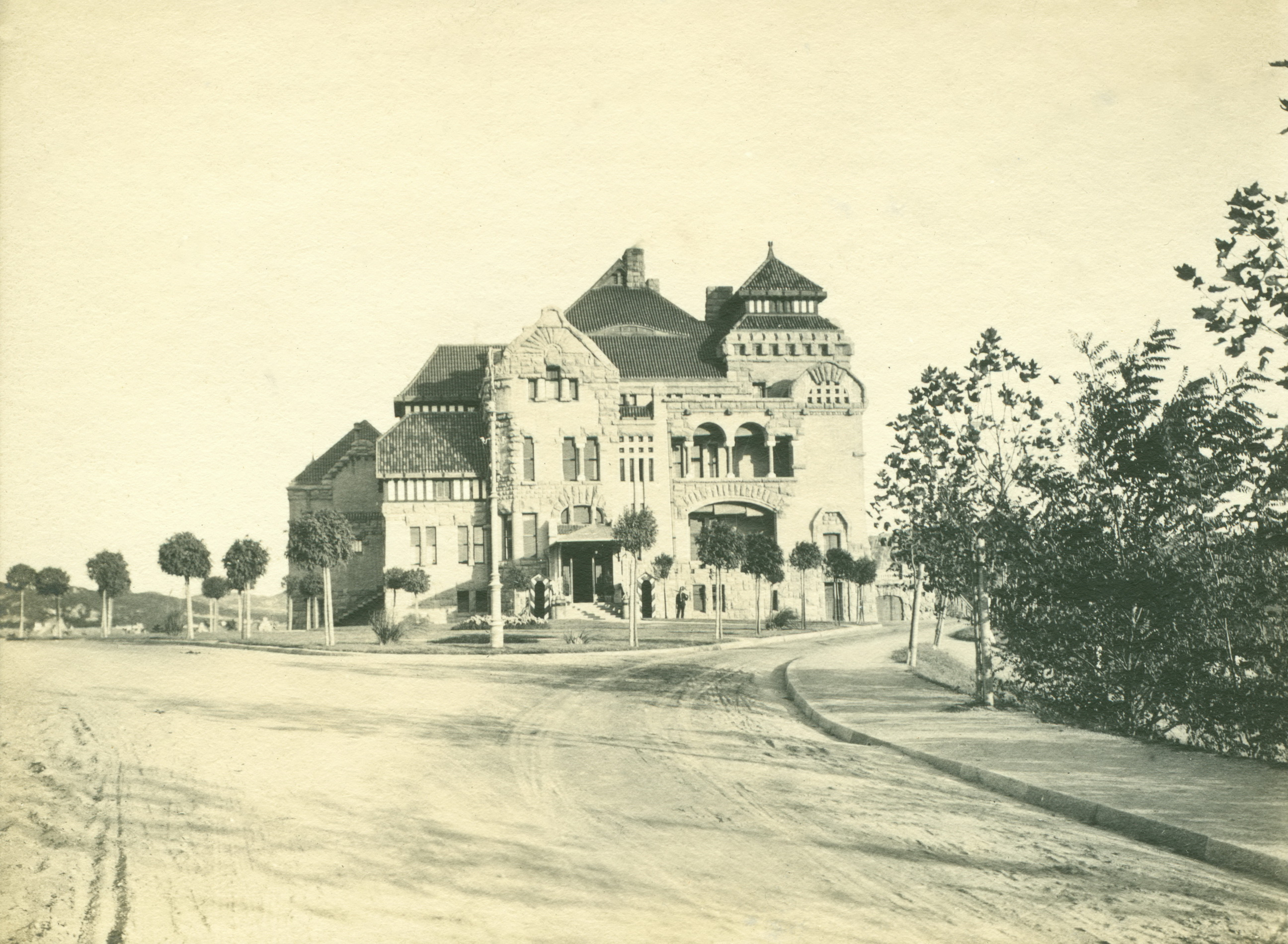 The extraordinary Governor's Mansion or Residenz des Gouverneurs, built for the German governor in 1907 in the then popular Jugendstijl or Art Nouveau.From 1949 it was used by Communist cadres. Mao Zedong stayed there in the 1970's. It is now called the Qingdao Guest House. The room where Mao stayed is, needless to say, often requested.